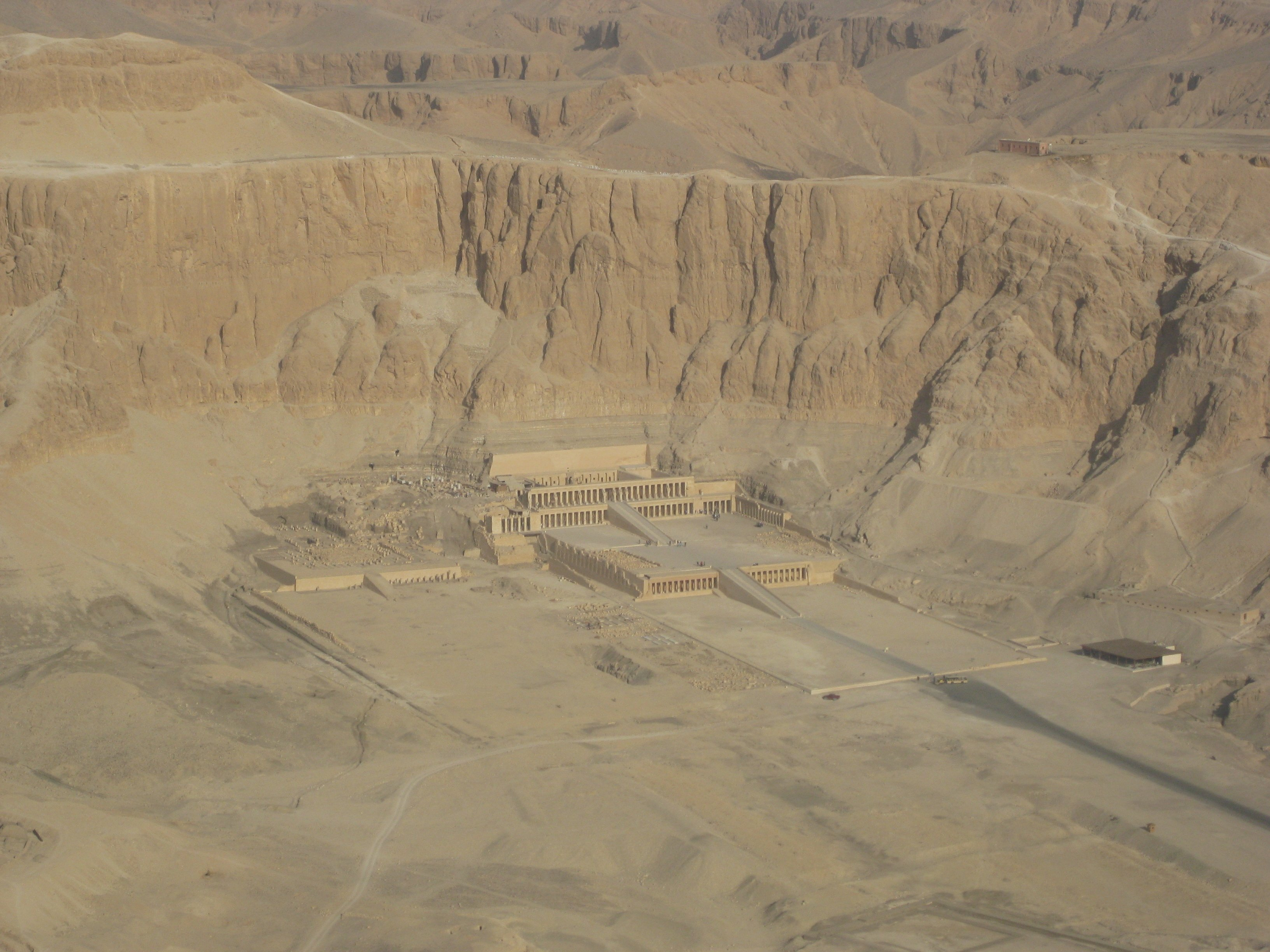 Temple of Hatshepsut